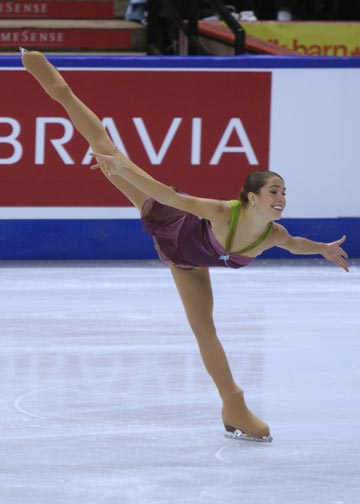 Alissa Czisny performs a spiral during her short program at the 2008 Skate Canada International.